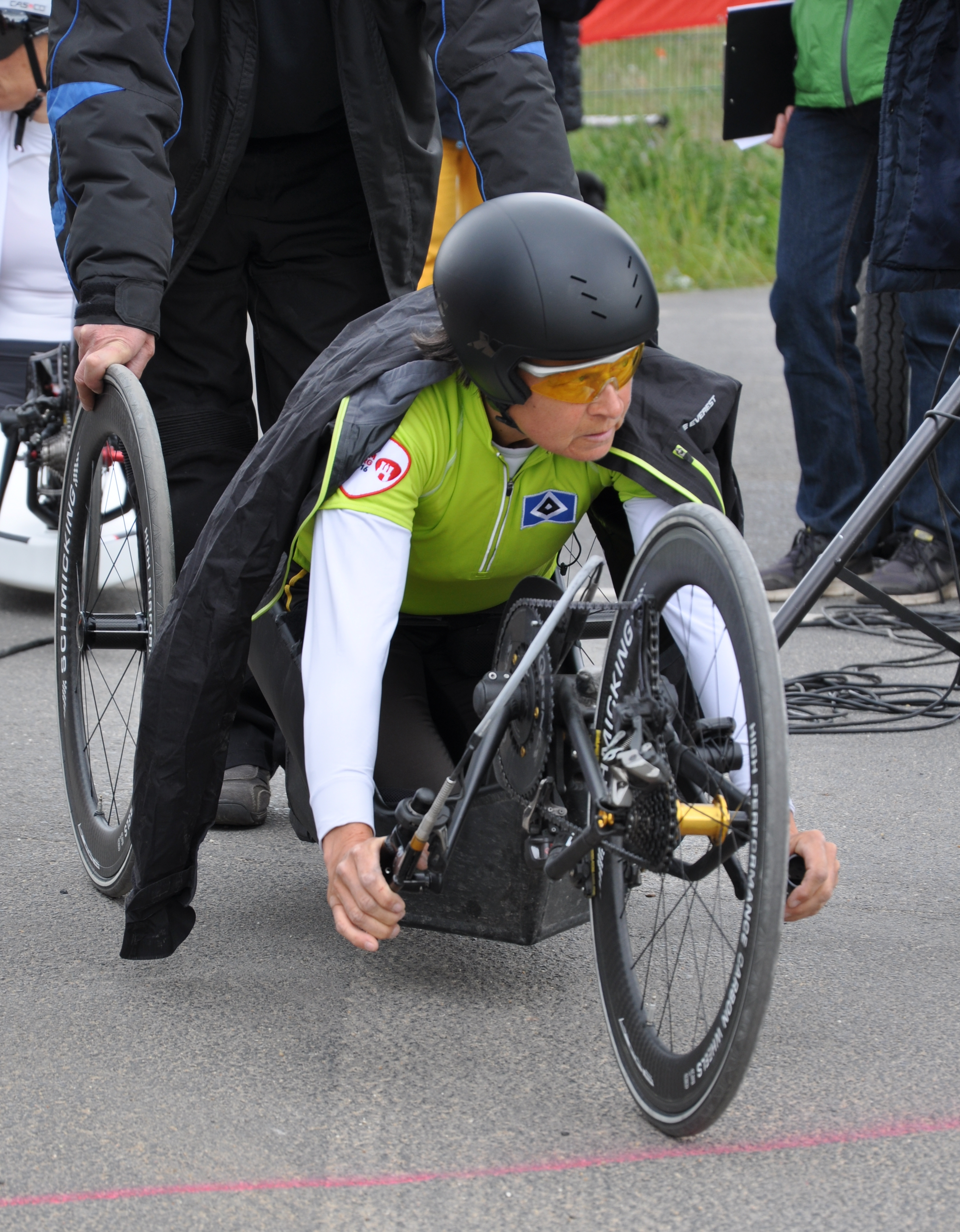 Dorothee Vieth, German para-cyclist